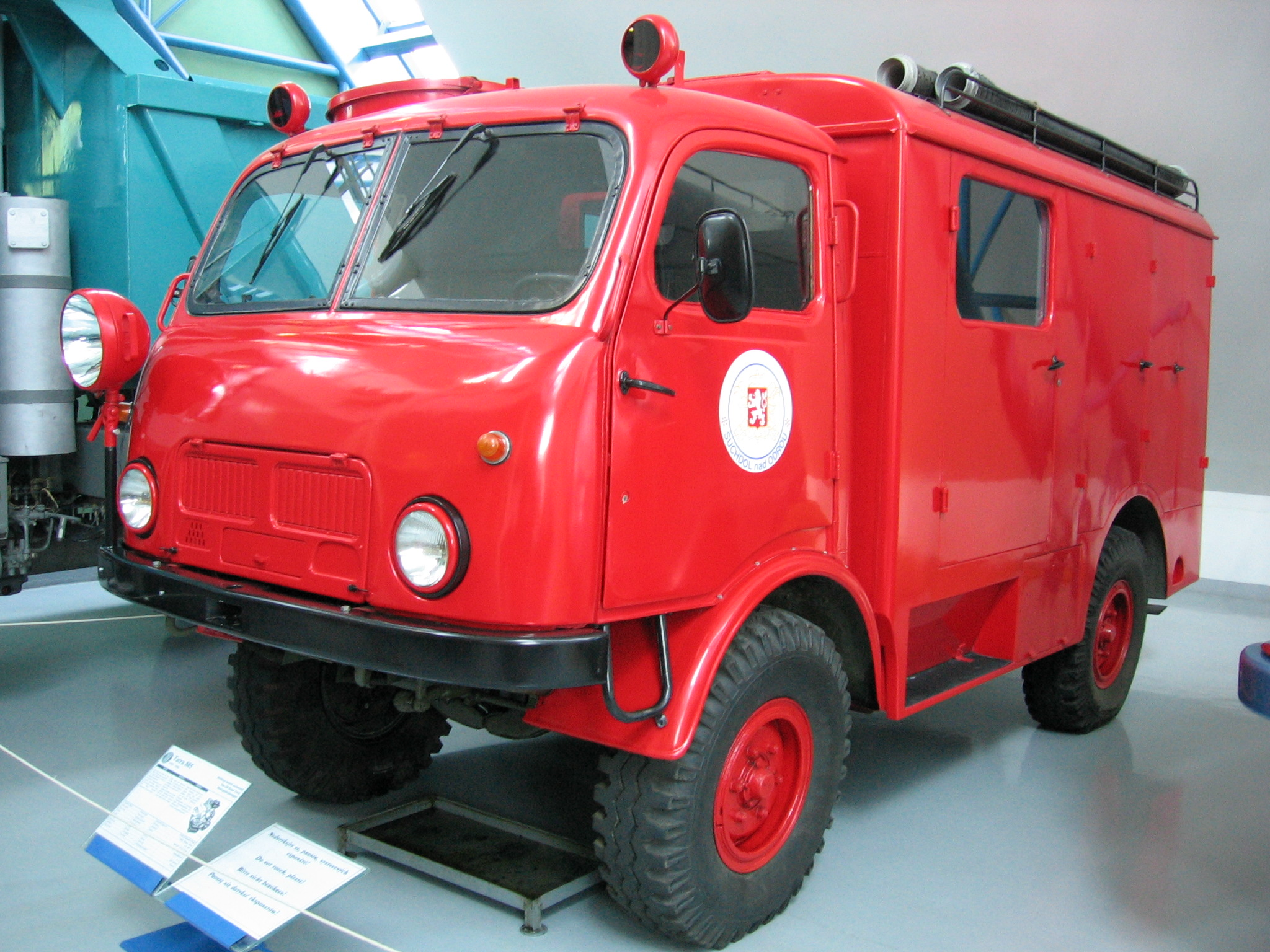 Tatra 805 - fire brigade